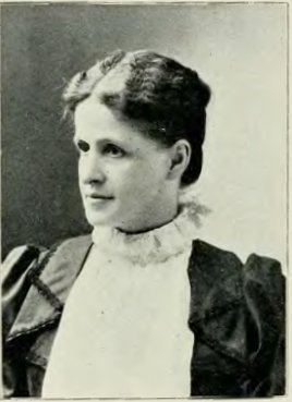 Portrait in History of Iowa From the Earliest Times to the Beginning of the Twentieth Century